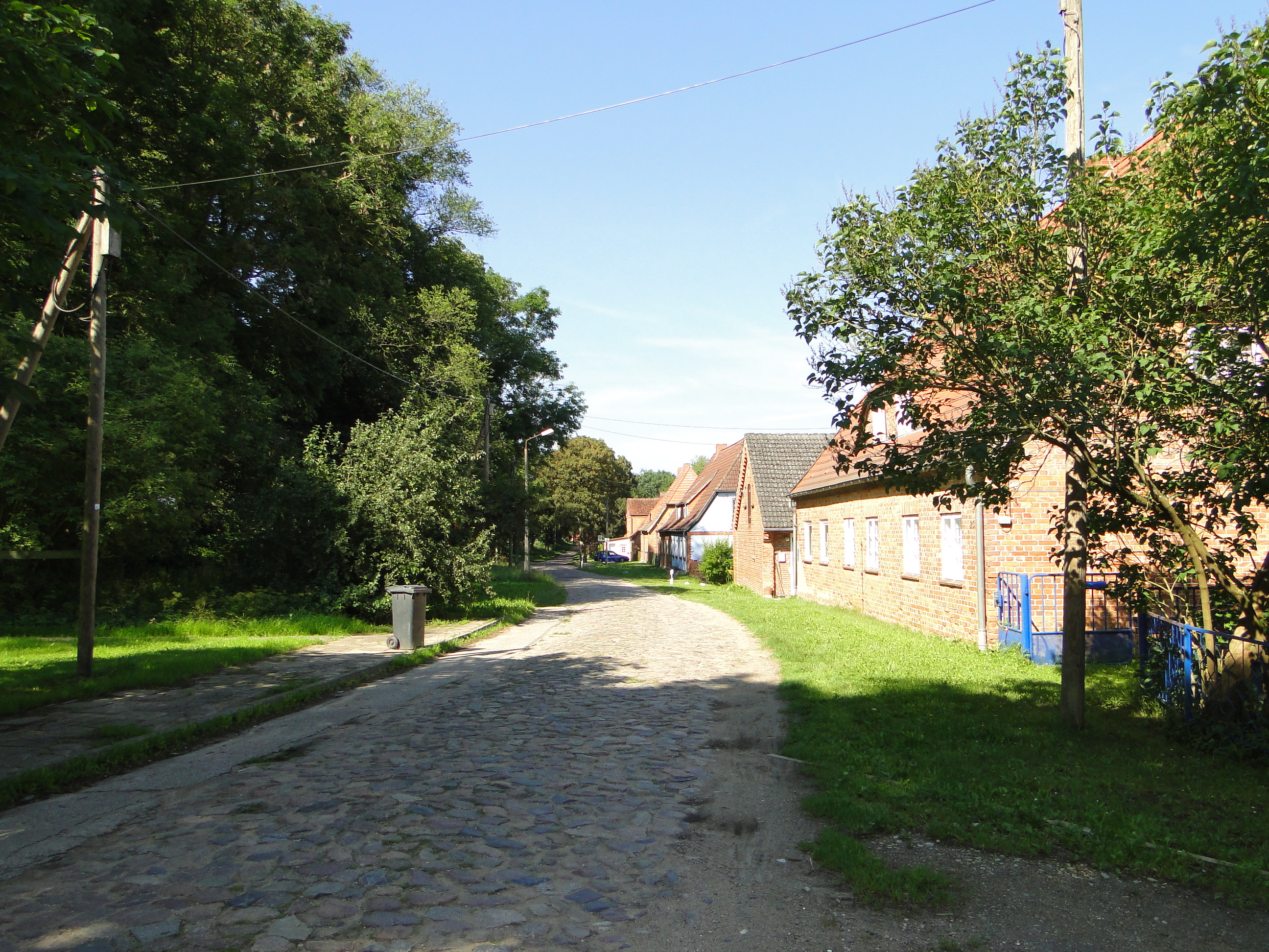 Street in Kirch Kogel, district Güstrow, Mecklenburg-Vorpommern, Germany